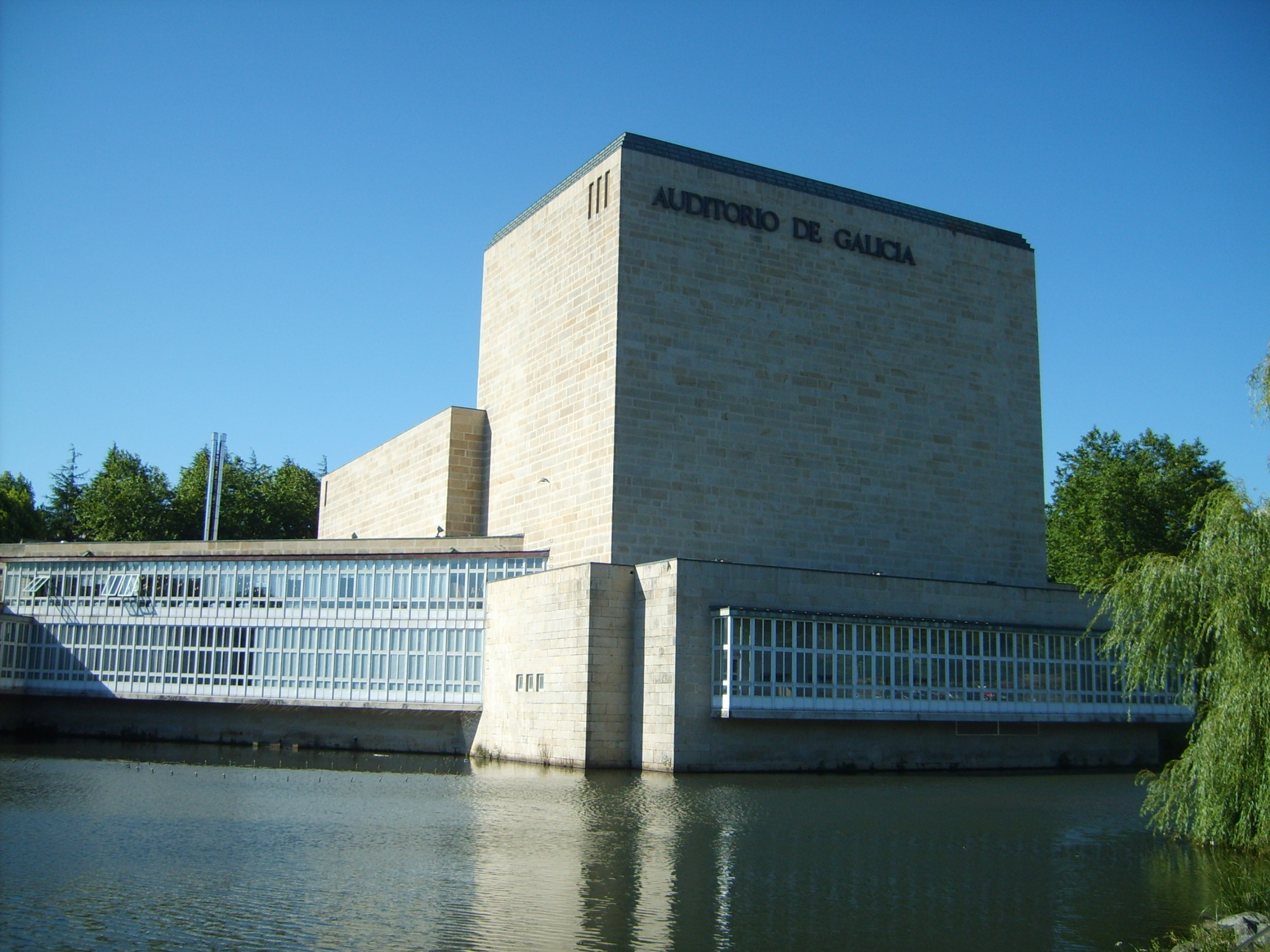 Auditorio de Galicia, Santiago de Compostela, Galicia, Spain.